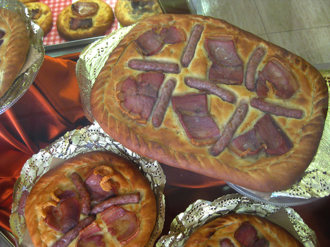 Bollos, local name for a kind of savoury pastry enhanced with sausages and bacon, typical of most of inland Valencia. This example is from Requena, Valencian Country, Spain.